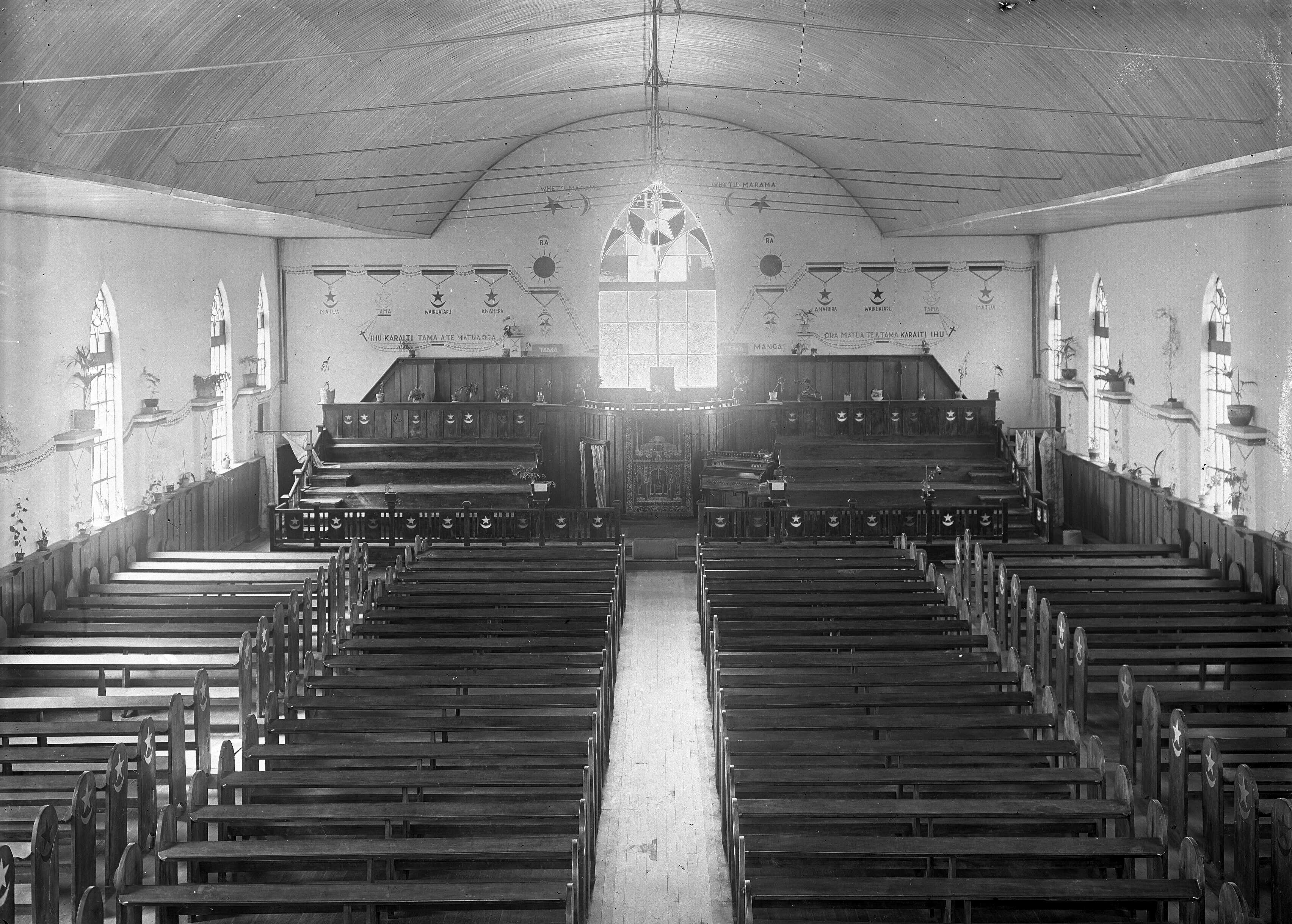 Photograph by Albert Percy Godber of the interior of the Temple at Ratana Pa.